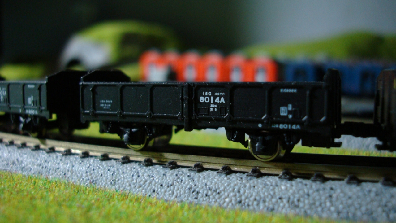 15G8000 N-SIZE MODEL OF Touch-Rail Models CO., Ltd.